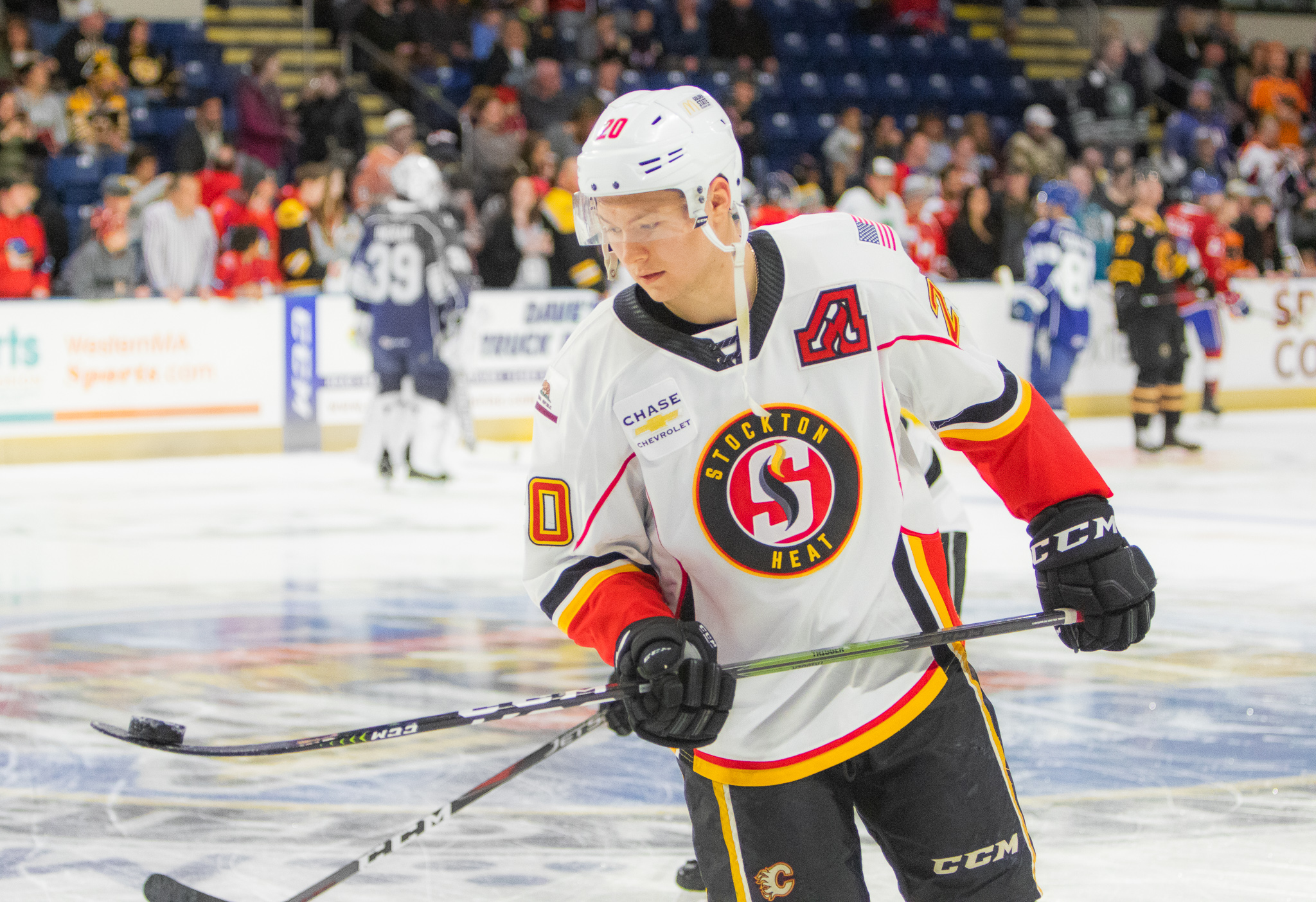 Photo By: Kelly Shea